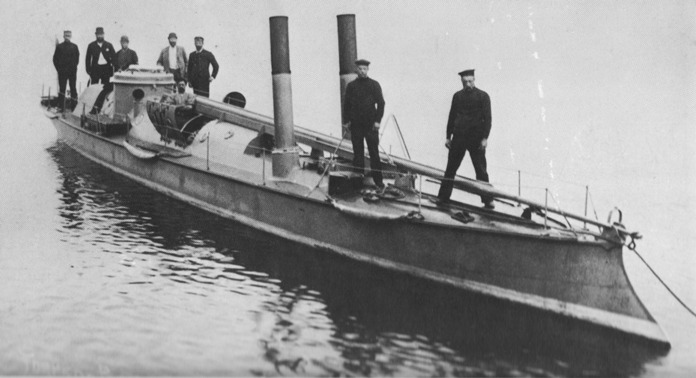 An unknown Defender-class torpedo boat